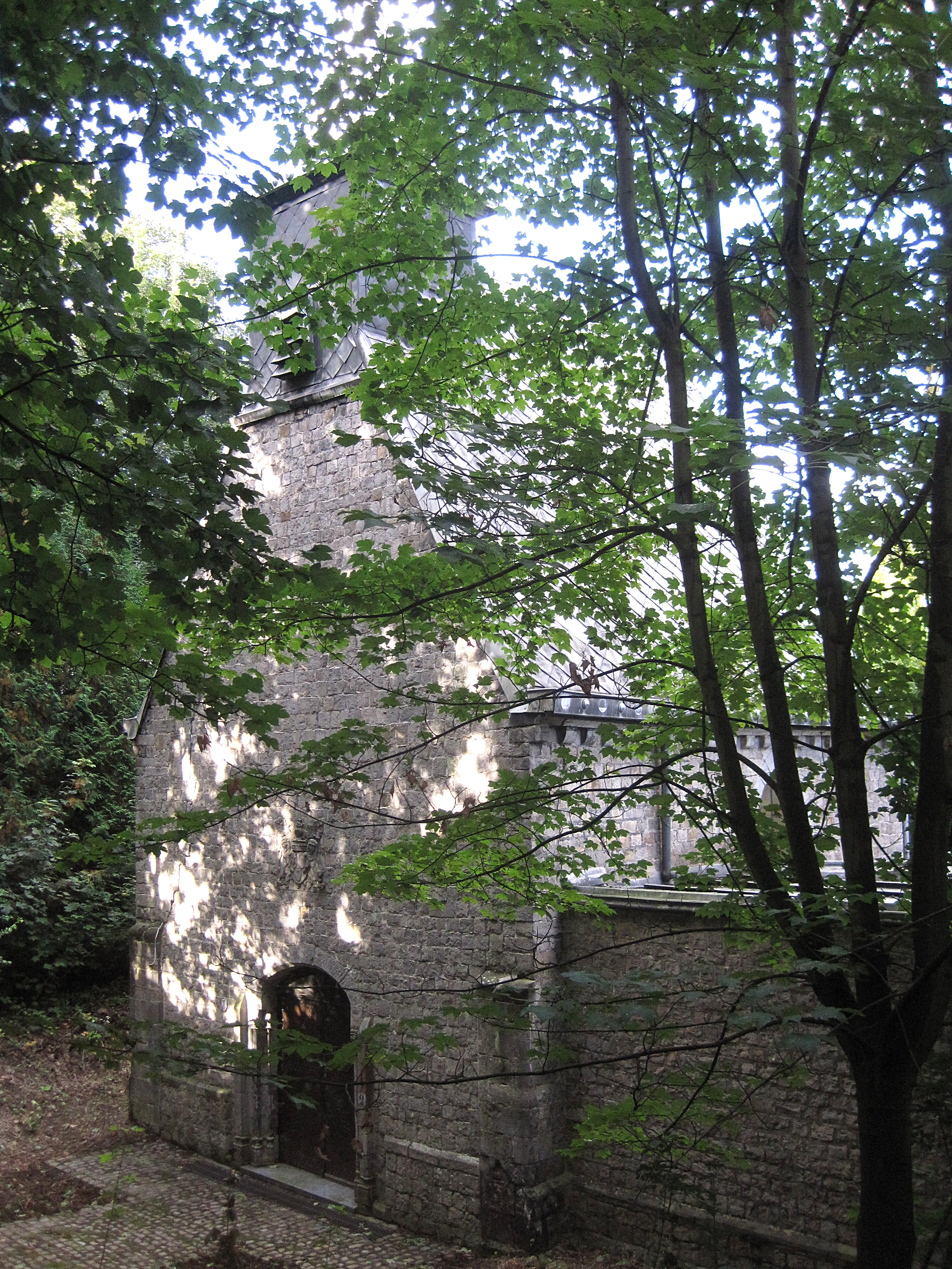 Havré, (Belgium), Impasse de la Chapelle - Chapel of St. Anthony in Barbenfosse built between 1389 and 1409 by the Knights of the Saint-Antoine-en-Barbefosse Order with the consent of Gerard II of Enghien, lord of Havré. - This historical monument is currently inaccessible to the public following the damage to its structure due to lack of maintenance. 55″ N, 4° 00′ 56.31″ E